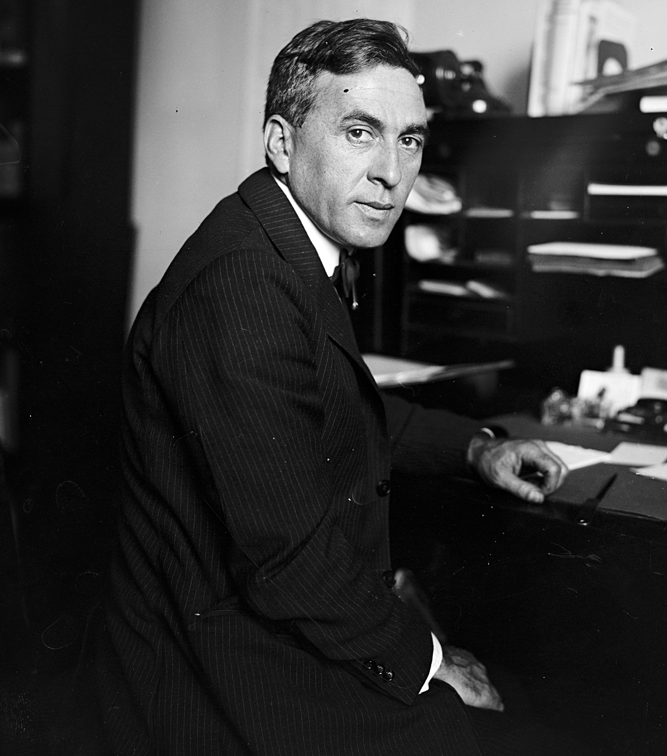 Meyer Jacobstein, US Representative from New York